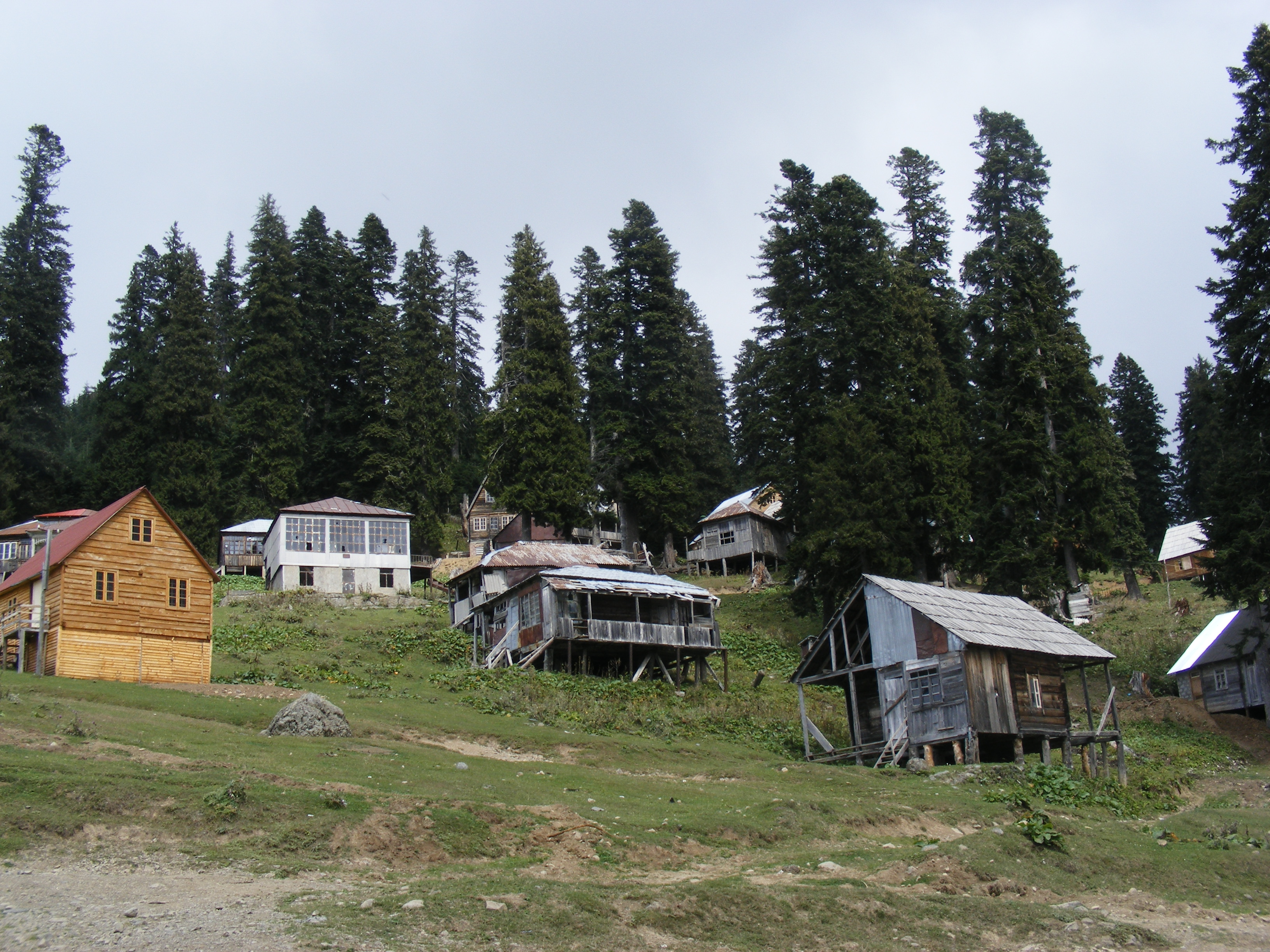 Ingorokva Street